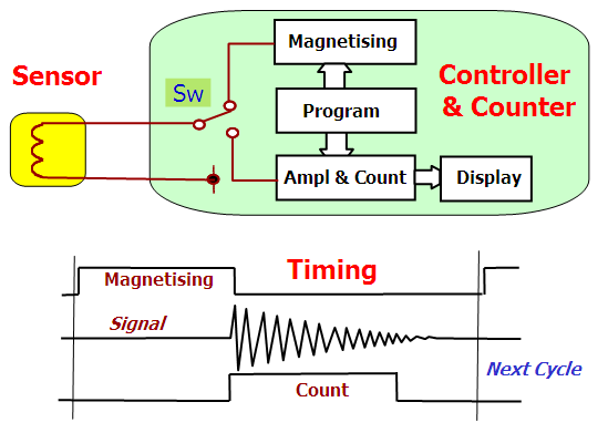 Schema of Proton Magnetometer